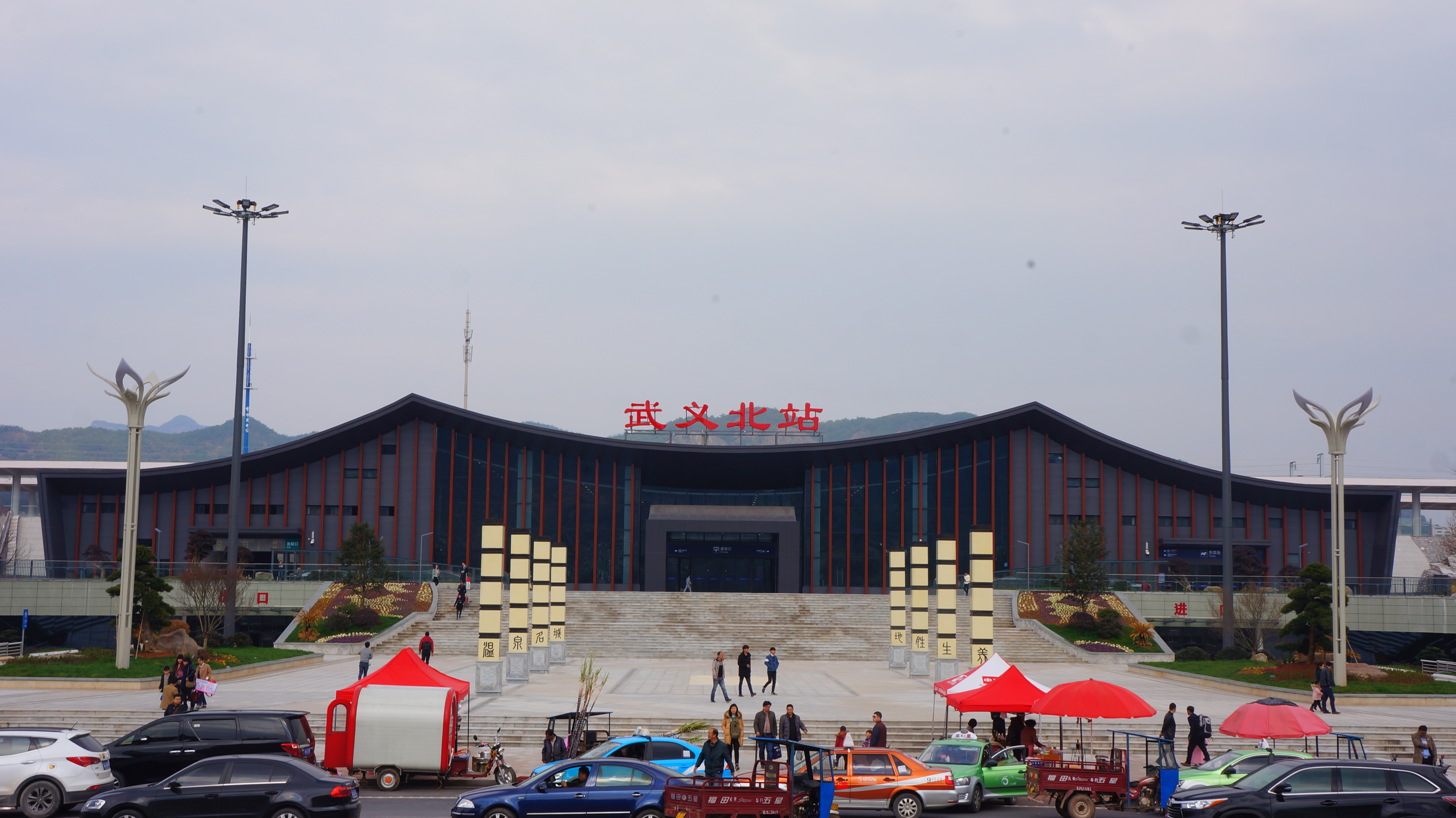 201603 Wuyibei Station